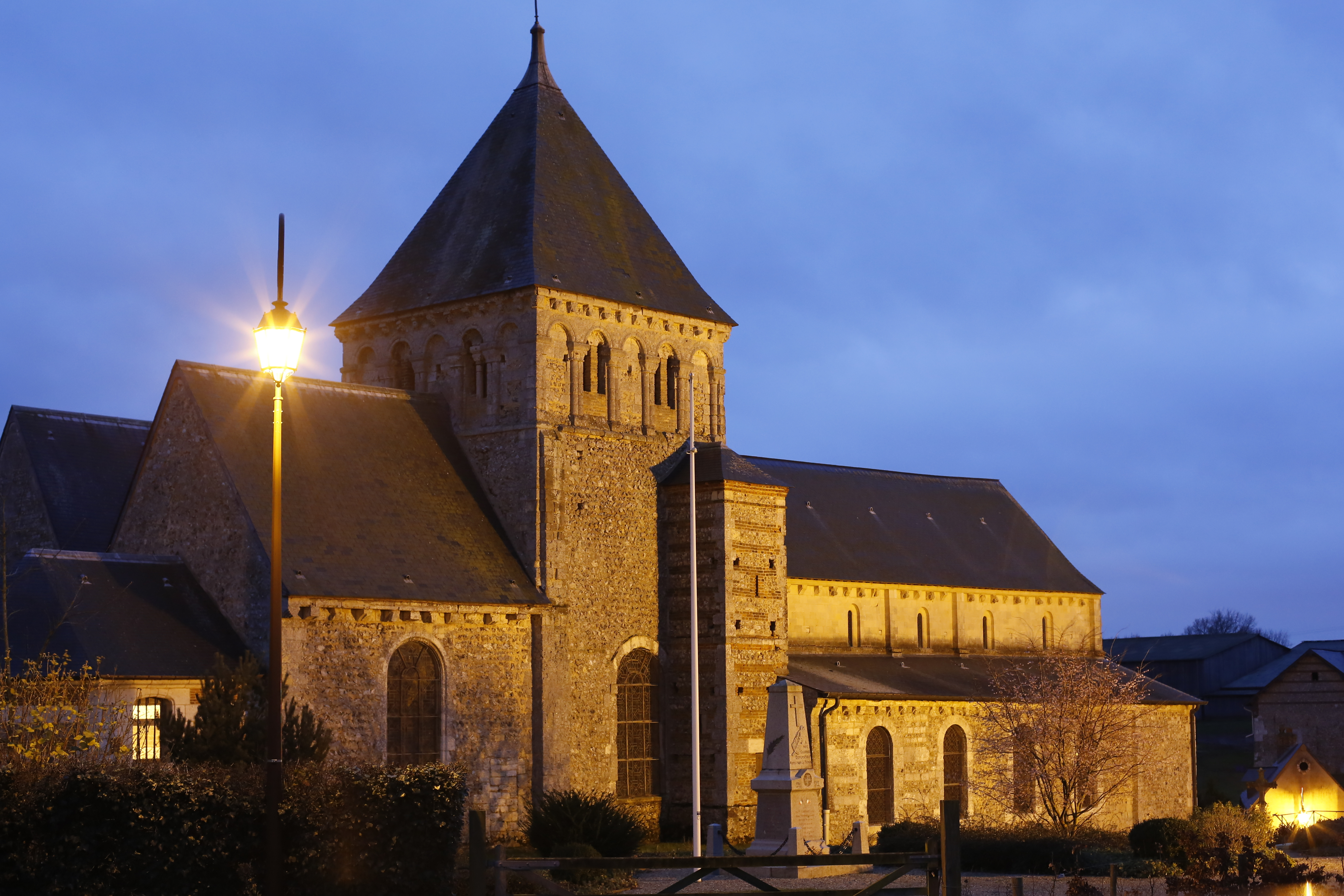 Saint-Germain church in Manéglise.